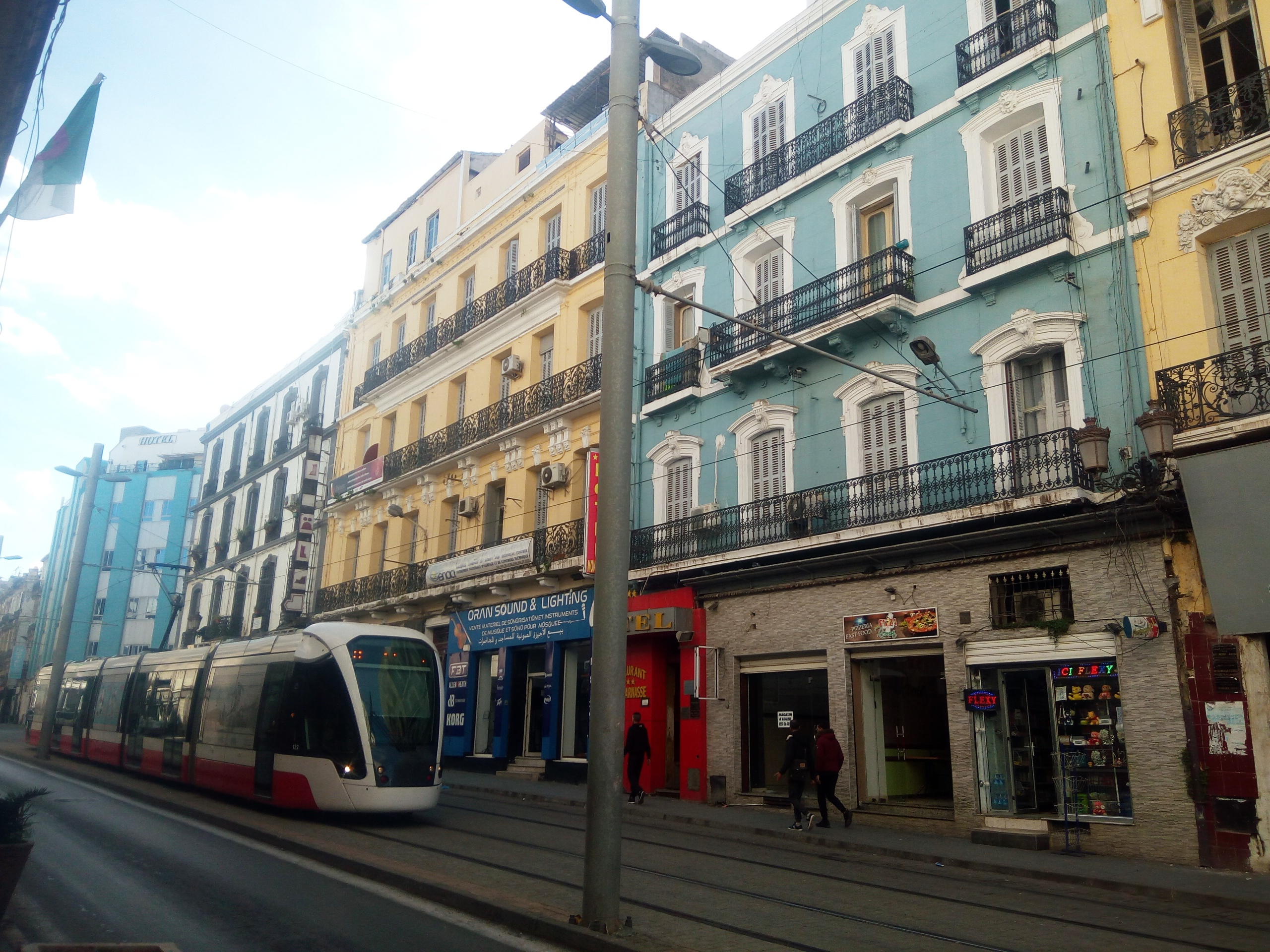 Oran tramway, Algeria